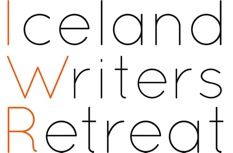 Iceland Writers Retreat logo